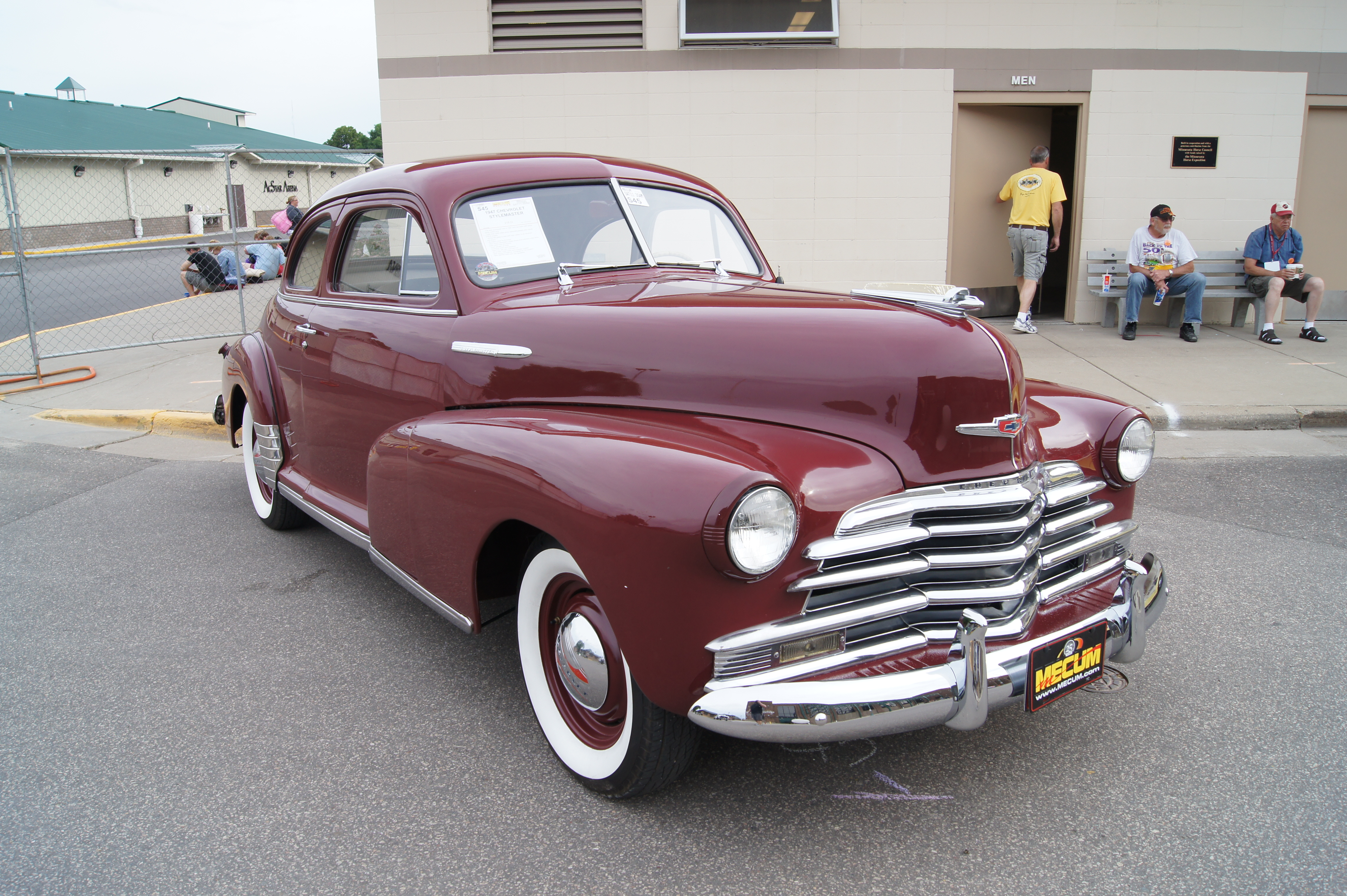 Minnesota Street Rod Association "Back to the Fifties" June 2012 Minnesota State Fairgrounds St. Paul MN